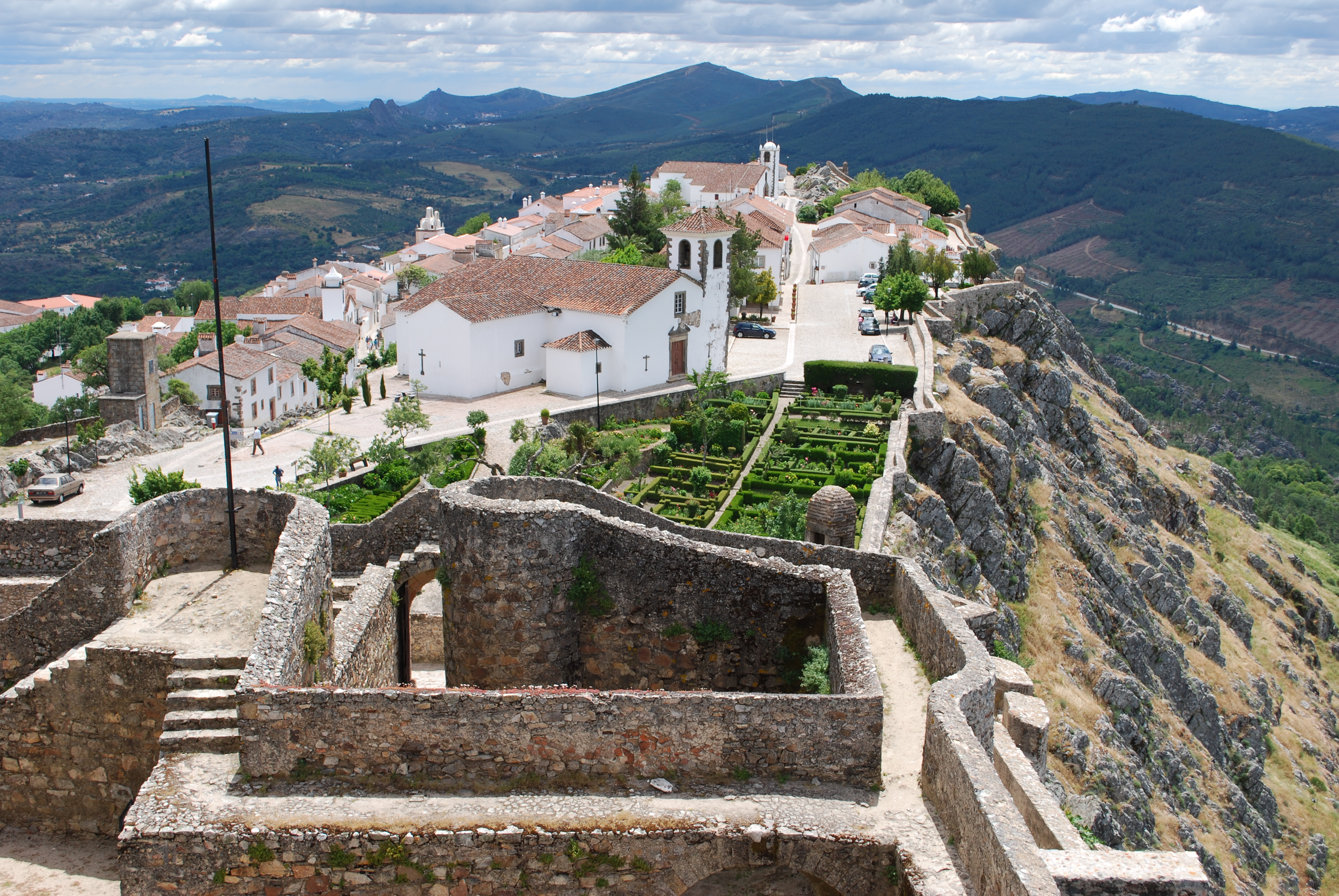 This file was uploaded for Wiki Loves Monuments in Portugal with the unique identifier 71821.